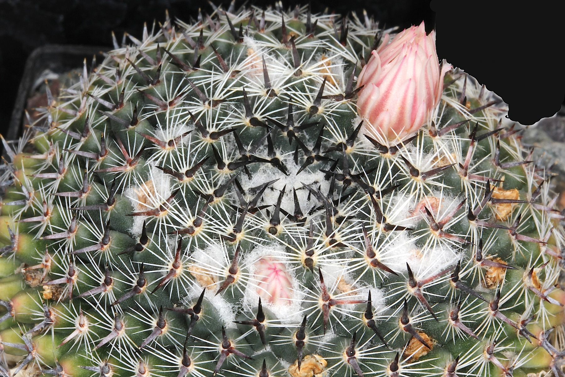 Mammillaria chionocephala